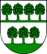 Coat of arms of Lipany, Slovakia